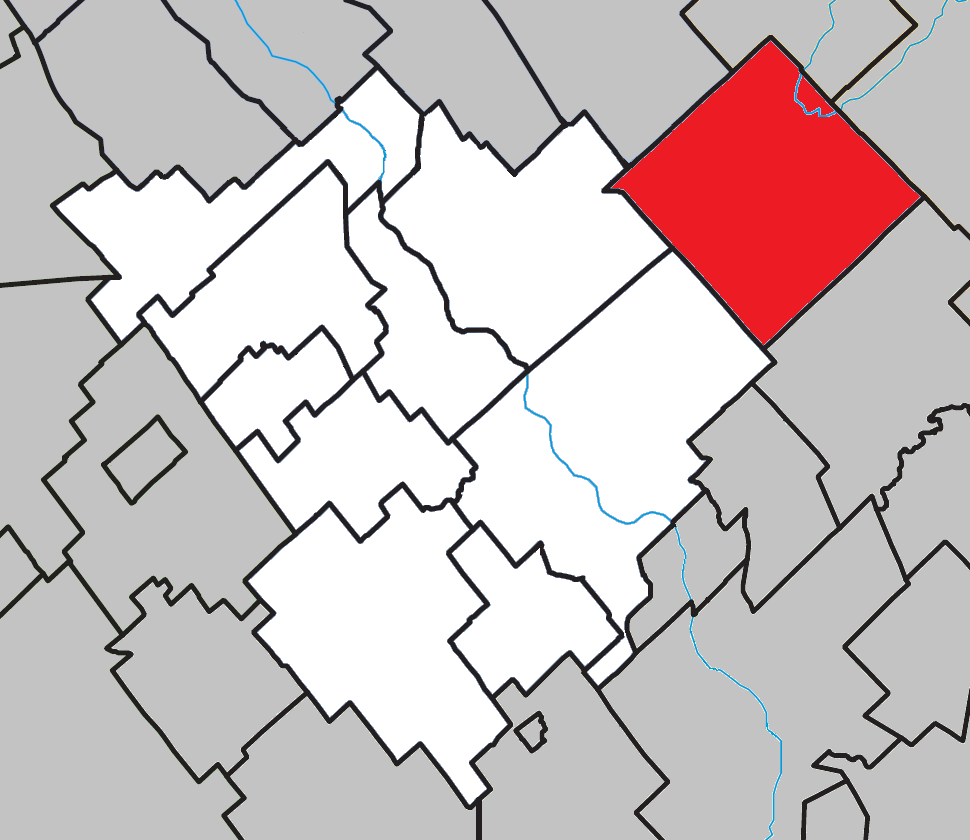 Location of Saint-Odilon-de-Cranbourne, Quebec within Robert-Cliche Regional County Municipality.